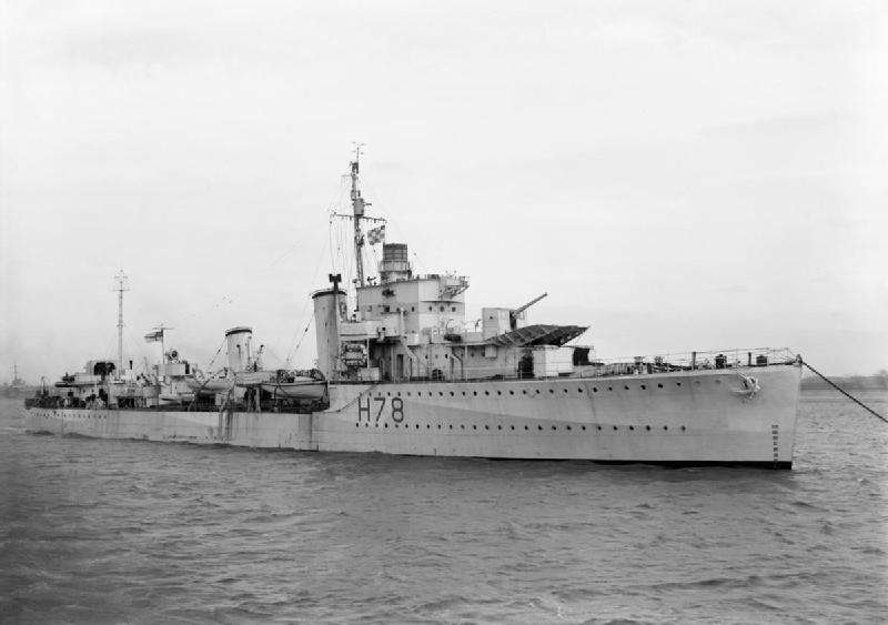 Photograph of British F class destroyer HMS Fame.